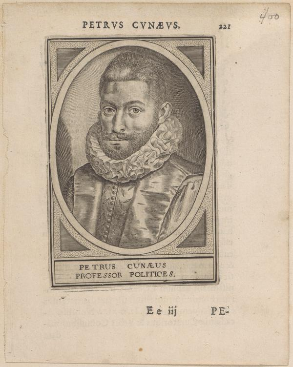 Petrus Cunaeus (1586-1638) Dutch scholar and jurist